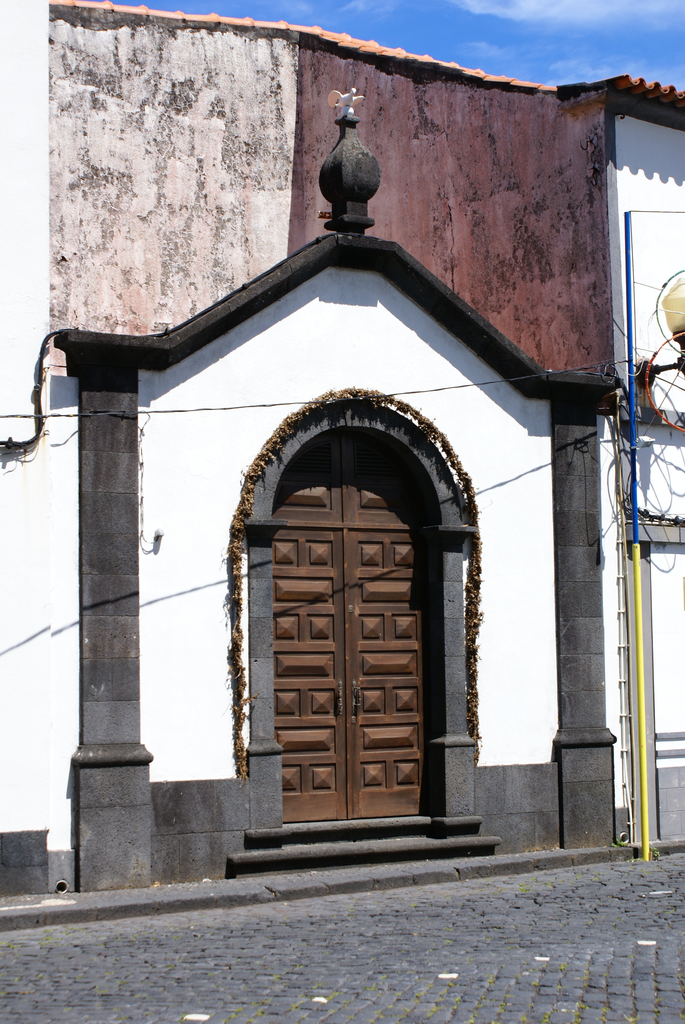 Império do Espírito Santo da Madalena, Madalena do Pico, ilha do Pico, Açores, Portugal